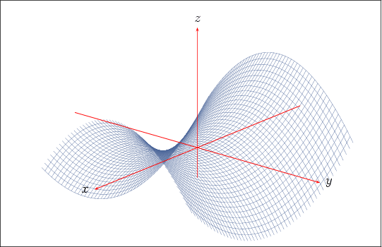 Plot of an hyperbolic paraboloid using PSTricks Category:Geometry Diagrams